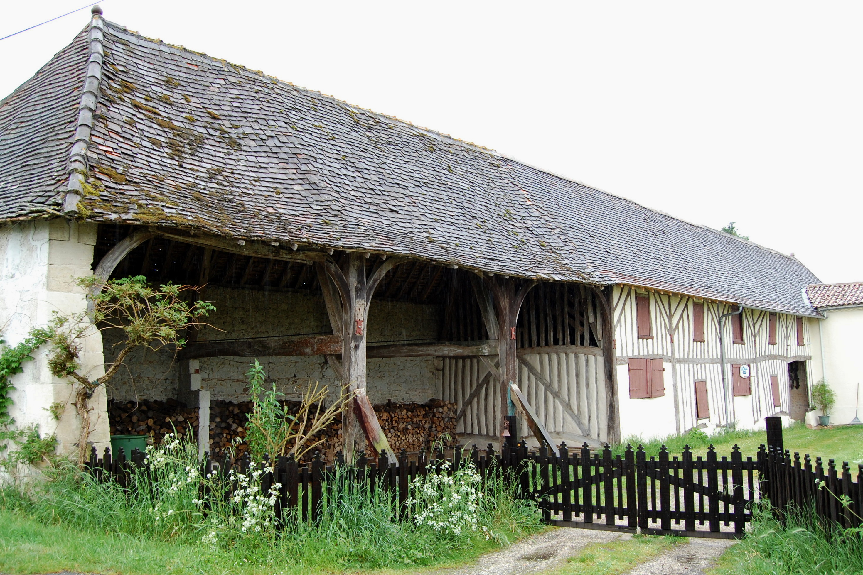 Timber framed house in Les Églisottes.